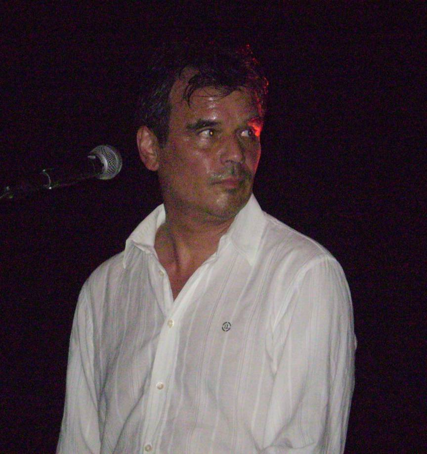 Ernst Jansz